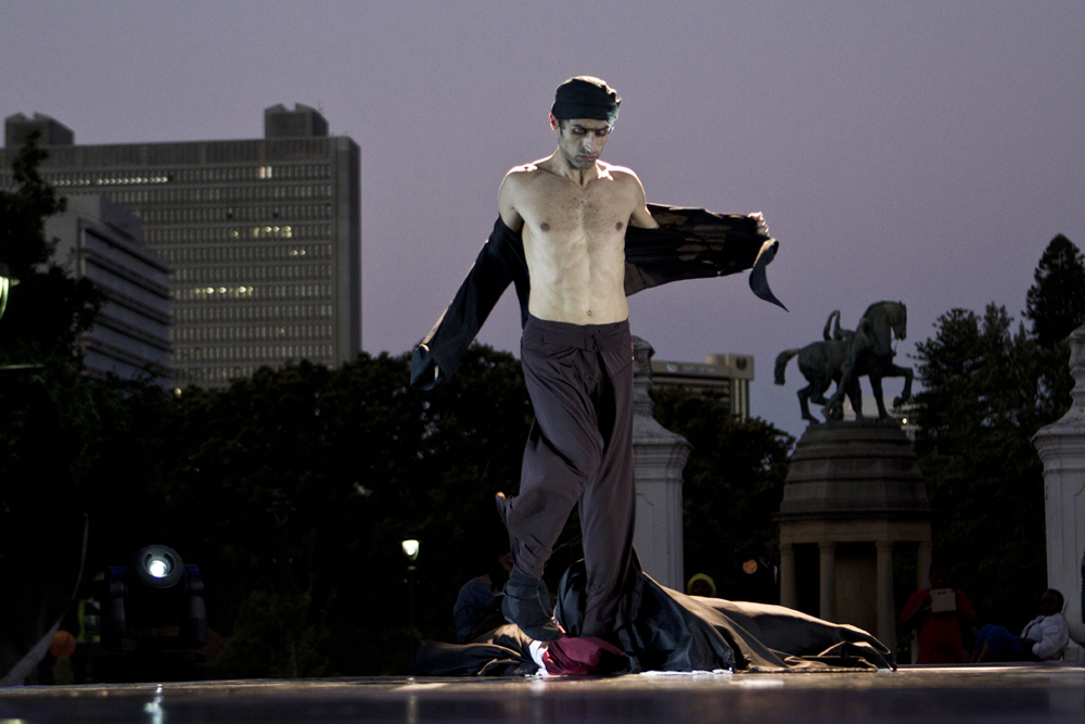 Infecting the City 2012. Africa Centre